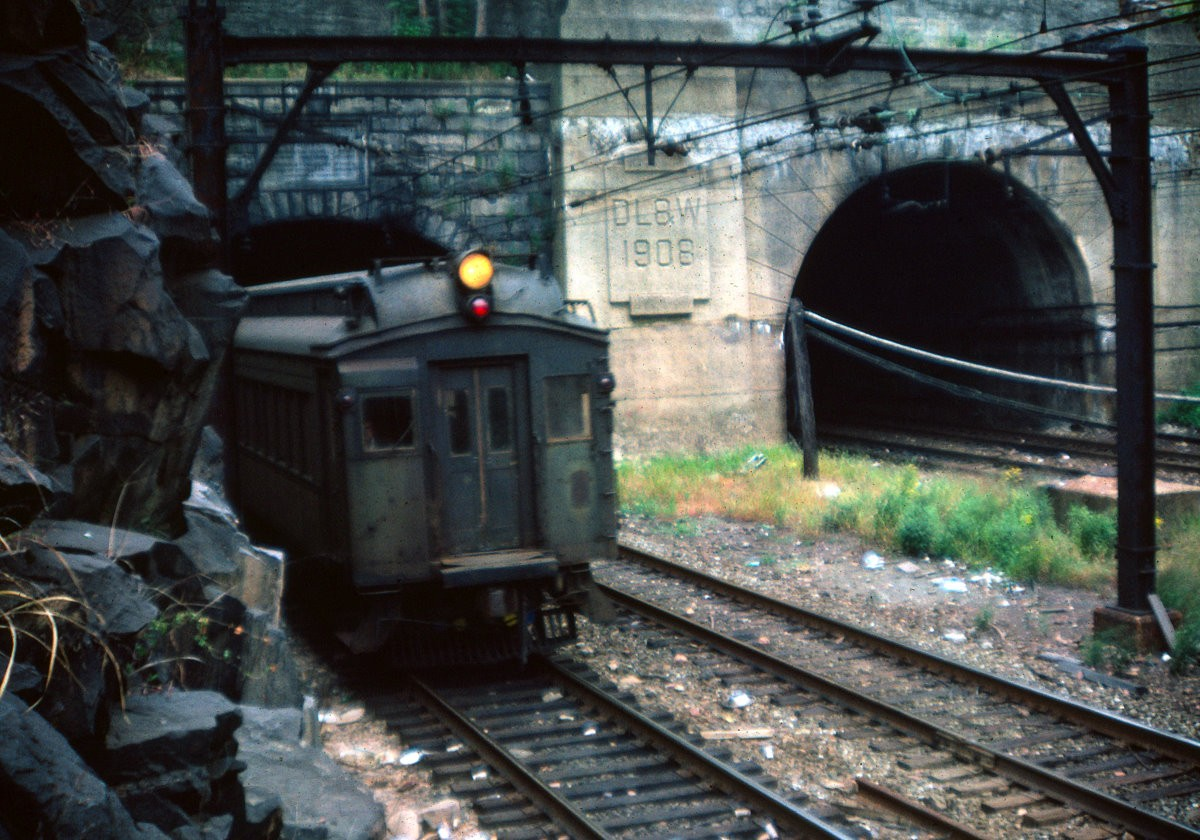 1910 era electric commuter train emerges from the Hoboken Tunnels, Hoboken NJ. August 1981. Scan from 35mm slide.